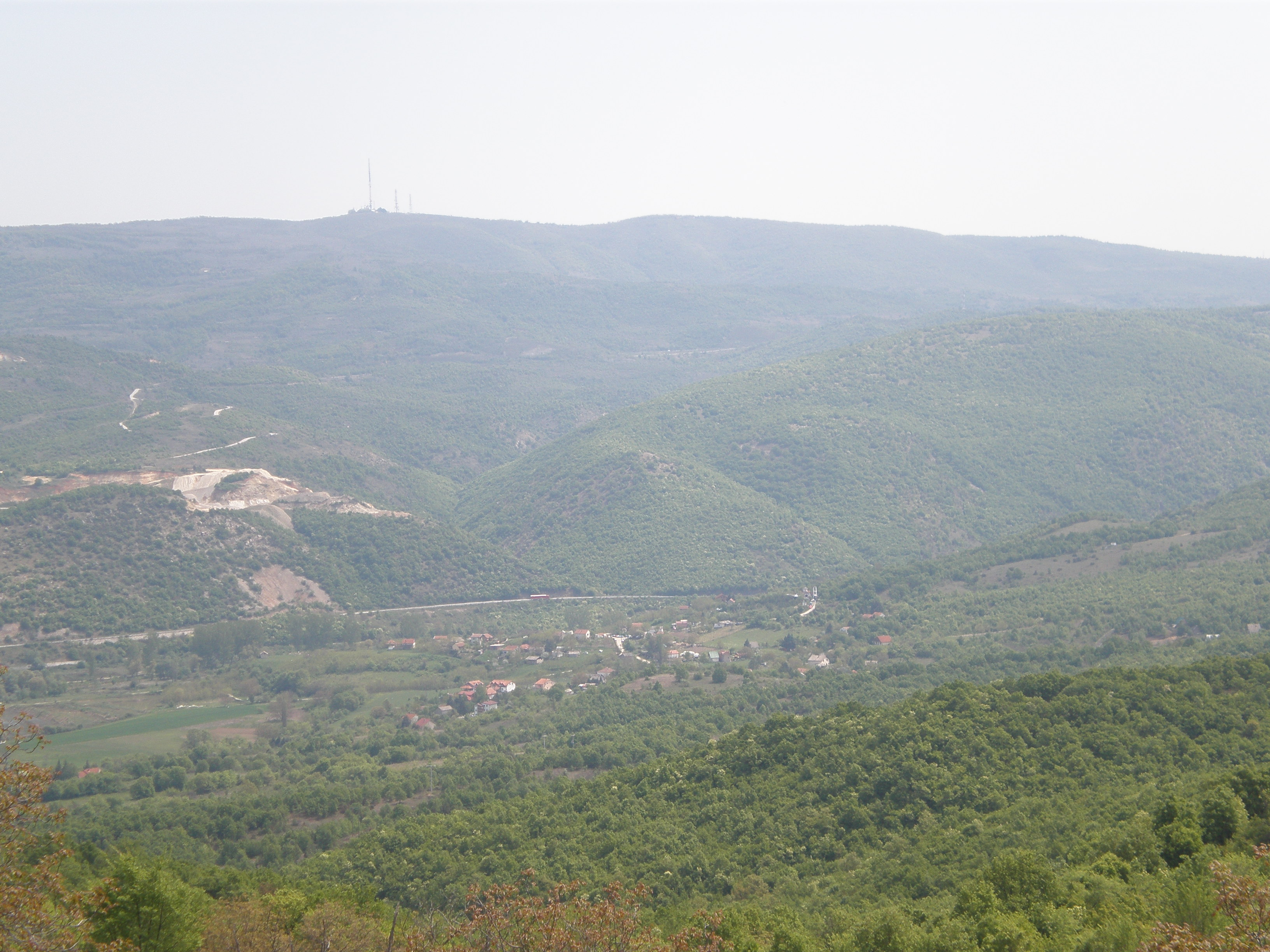 View of the village of Badar from Blace, Macedonia